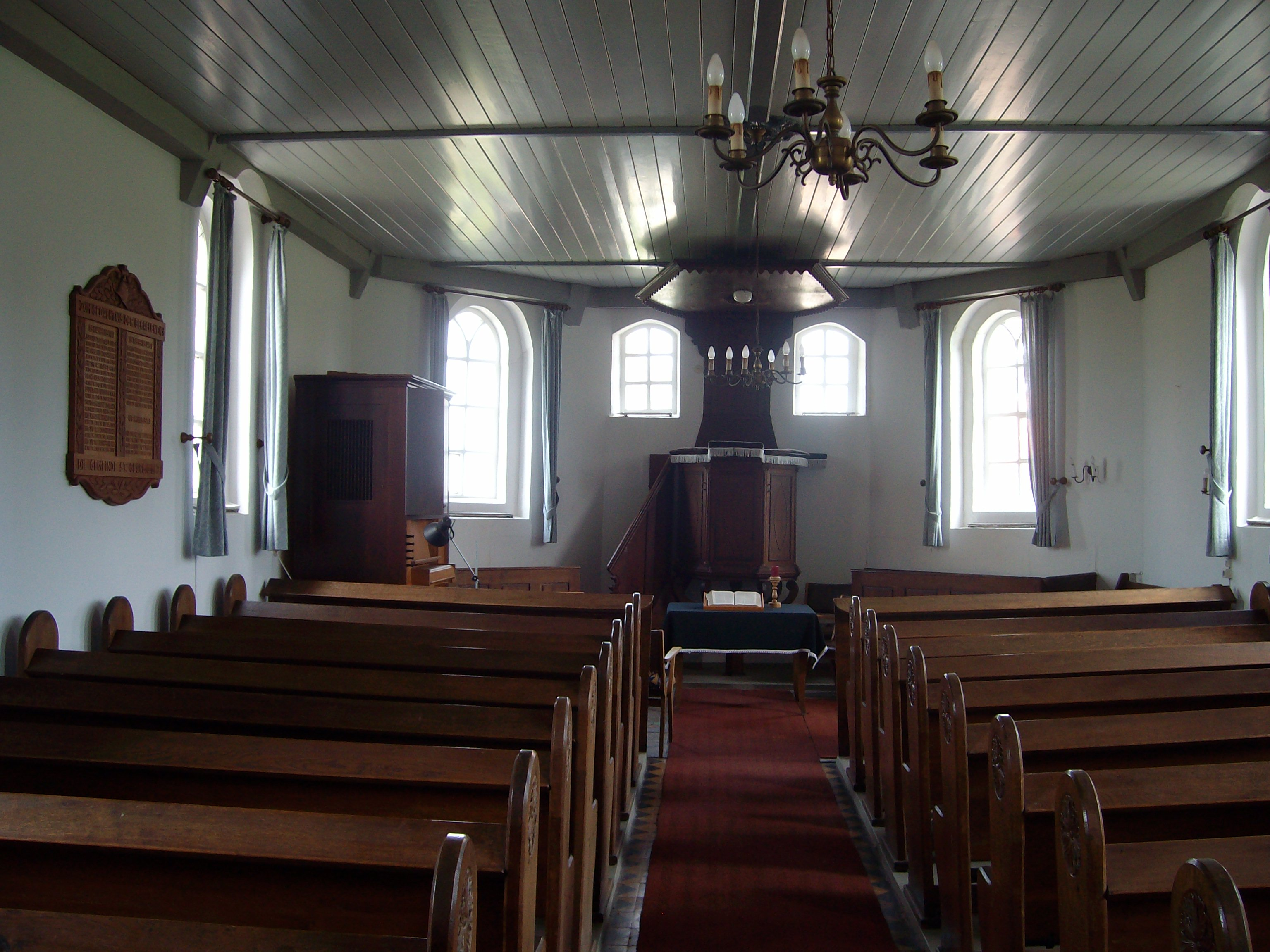 St. Georgiwold church, district of Leer, East Frisia, Germany